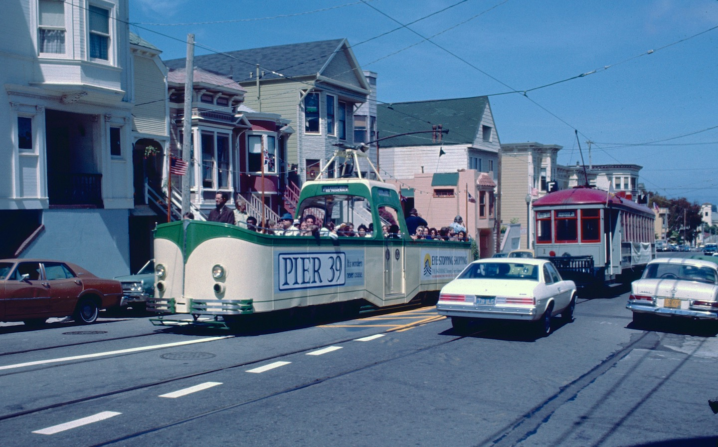 During the first San Francisco Historic Trolley Festival, in 1983, open-top Blackpool "boat" tram 226 is westbound on 17th Street near the 17th & Castro terminus, and has just passed 1912 San Francisco Muni car No. 1.